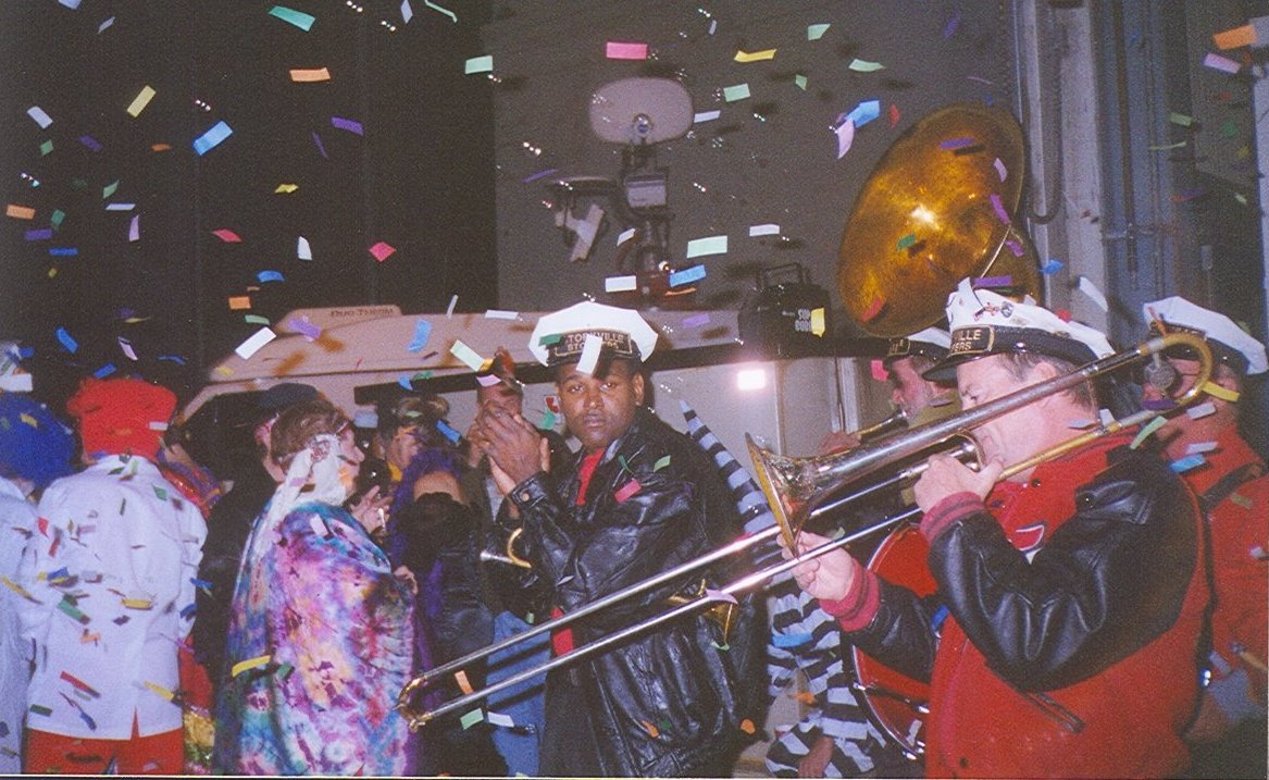 Brass band and confetti. 12th night part at start of Carnival season, New Orleans Photo by Infrogmation